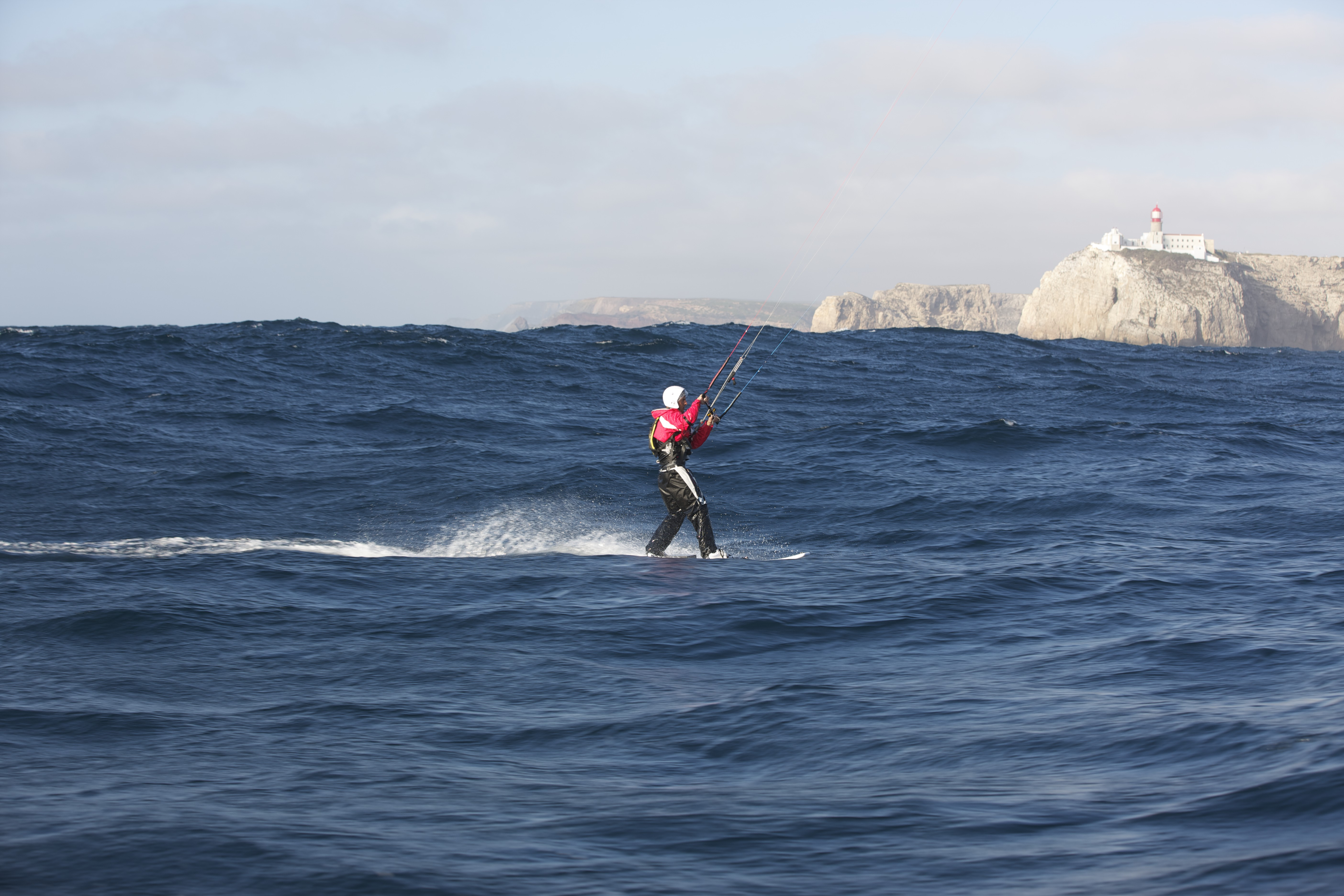 Francisco passing by the St. Vincent Cape in the South of Portugal. João Ferrand / JFF